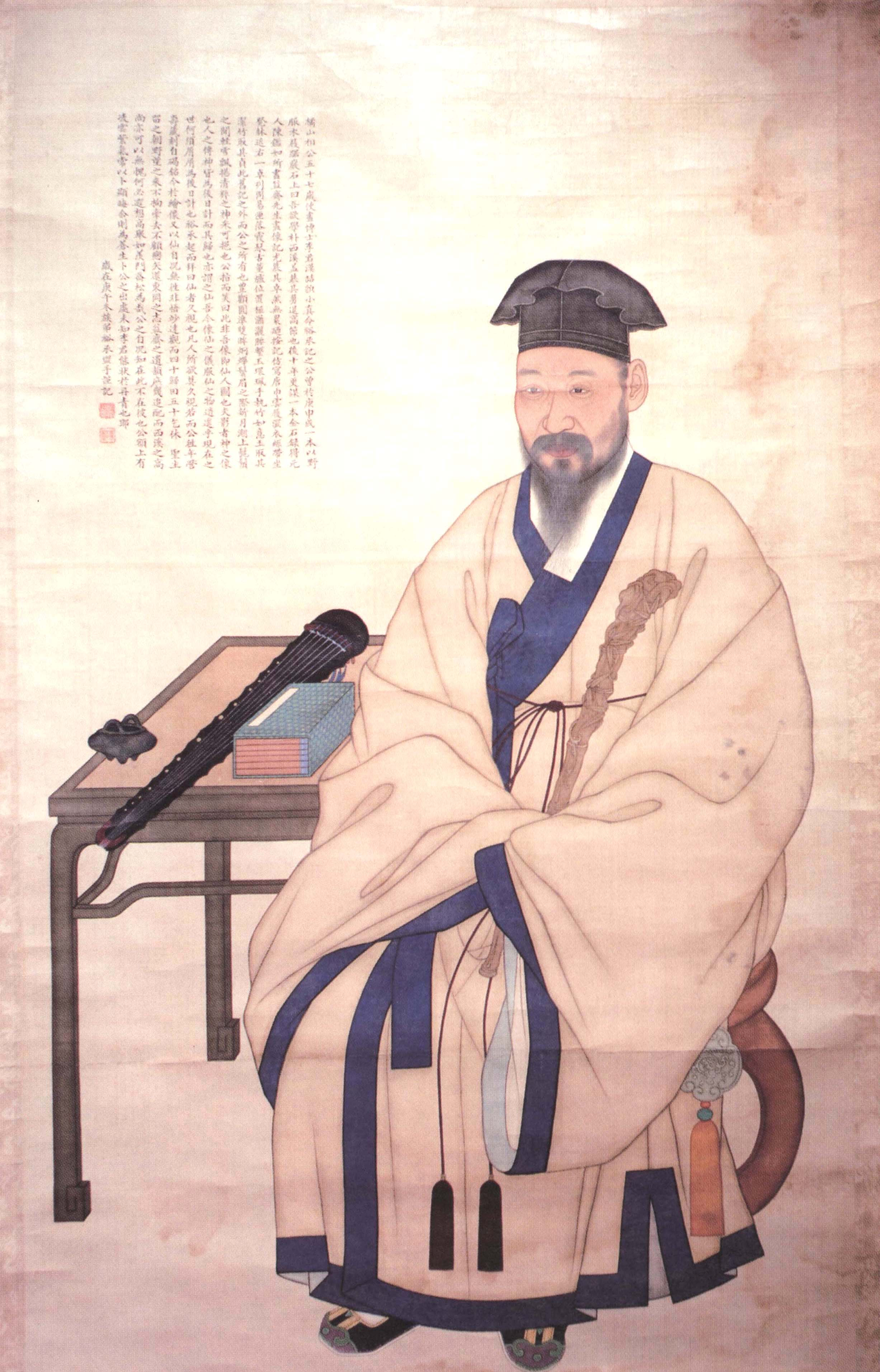 Portrait of Yi Yu-won